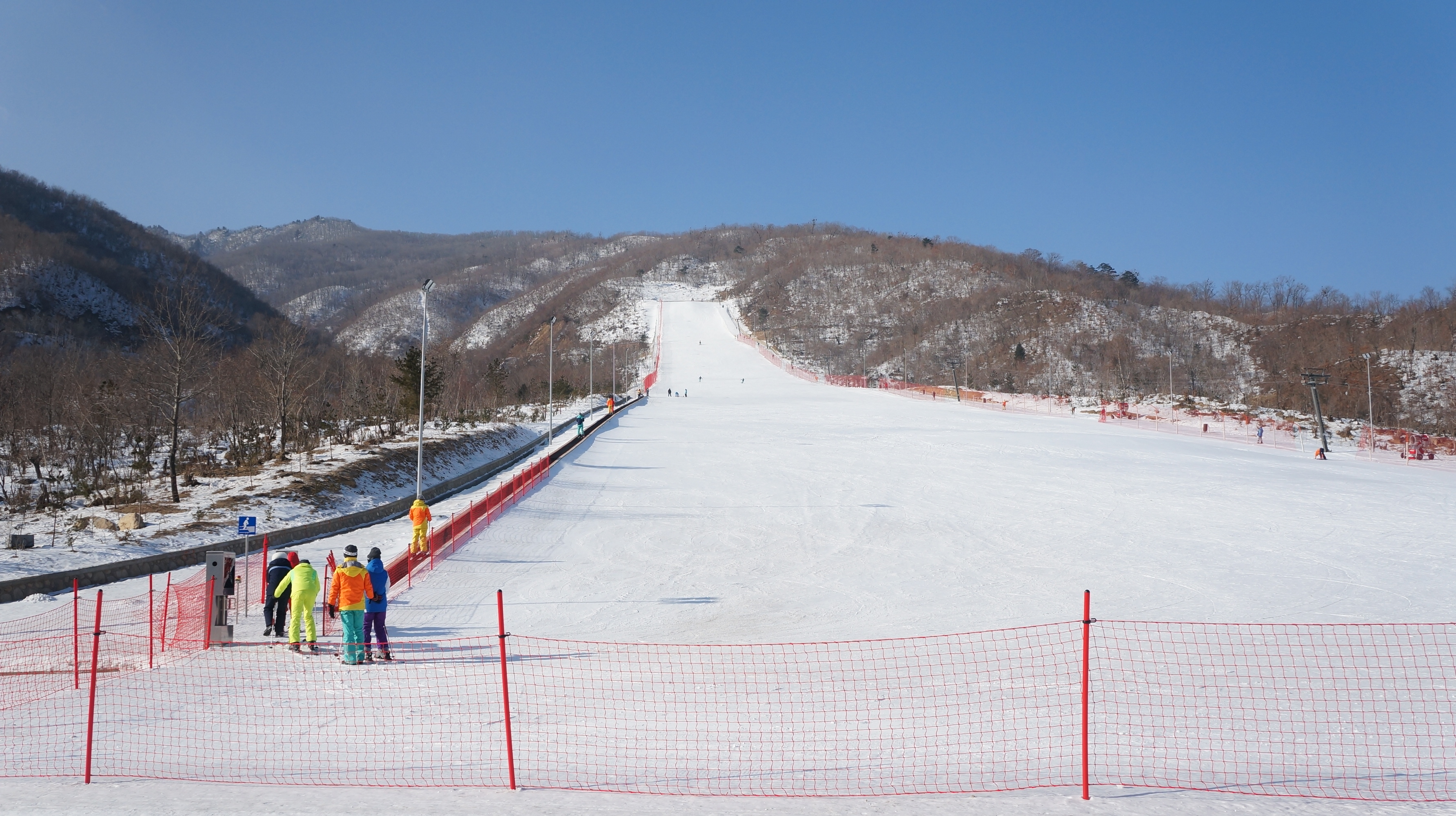 Masik Pass Ski Resort in North Korea